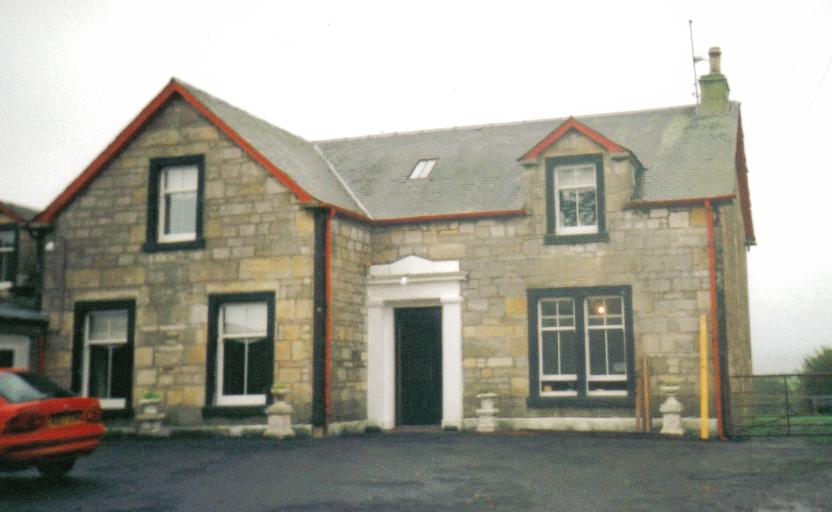 Mid Lambroughton in North Ayrshire, near Kilmaurs. Taken in 2006.